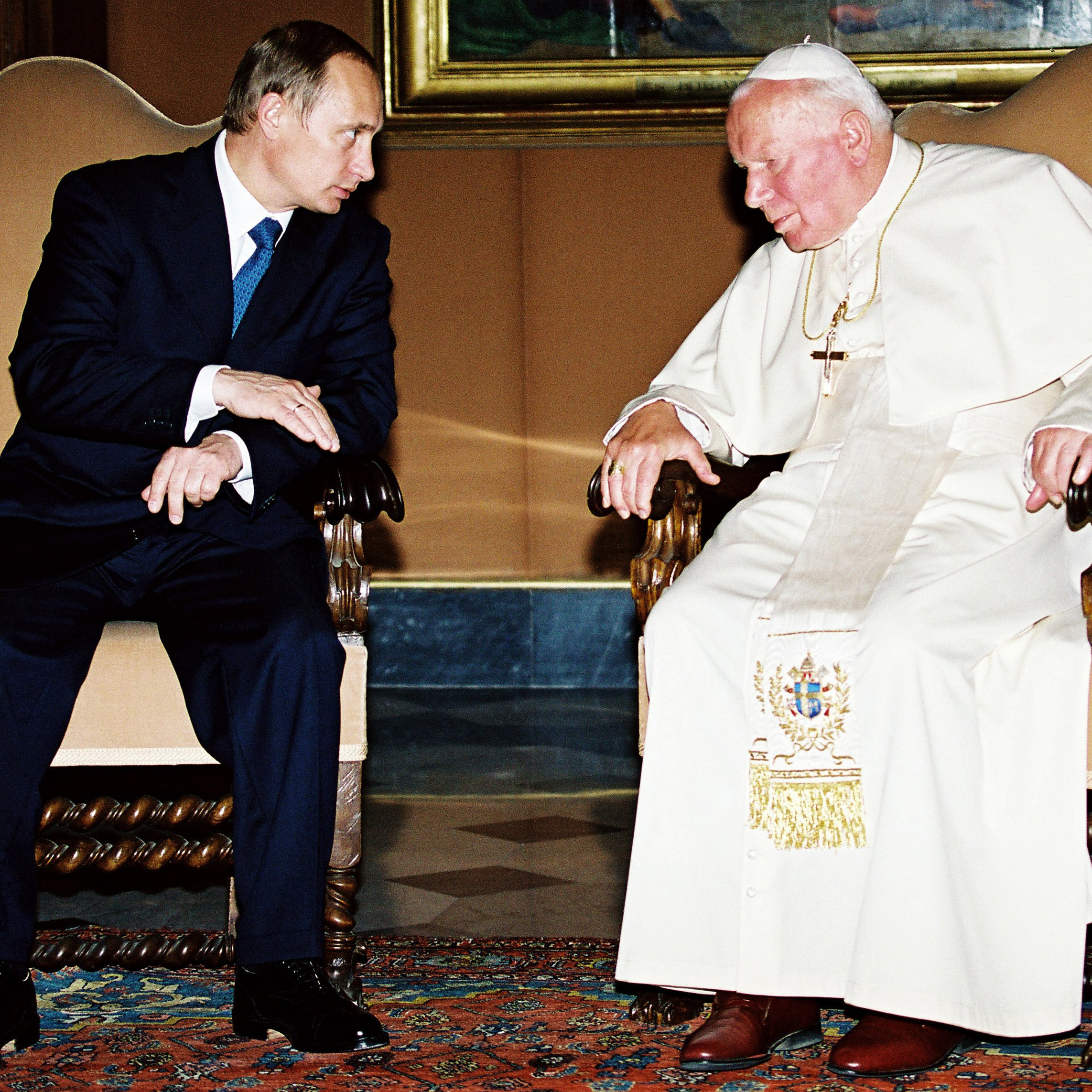 VATICAN CITY. A meeting with Pope John Paul II.